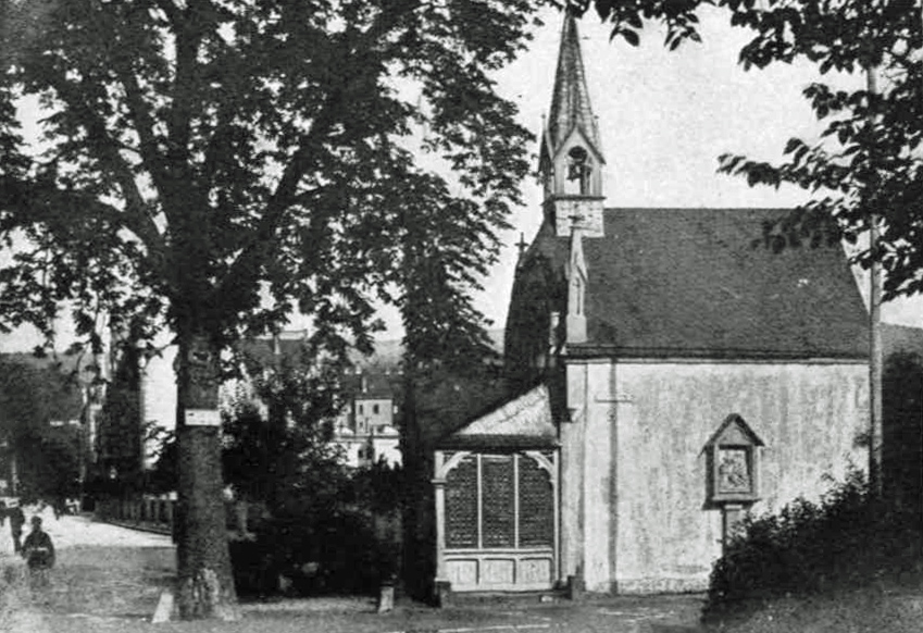 Chapel Markenbildchen in Koblenz